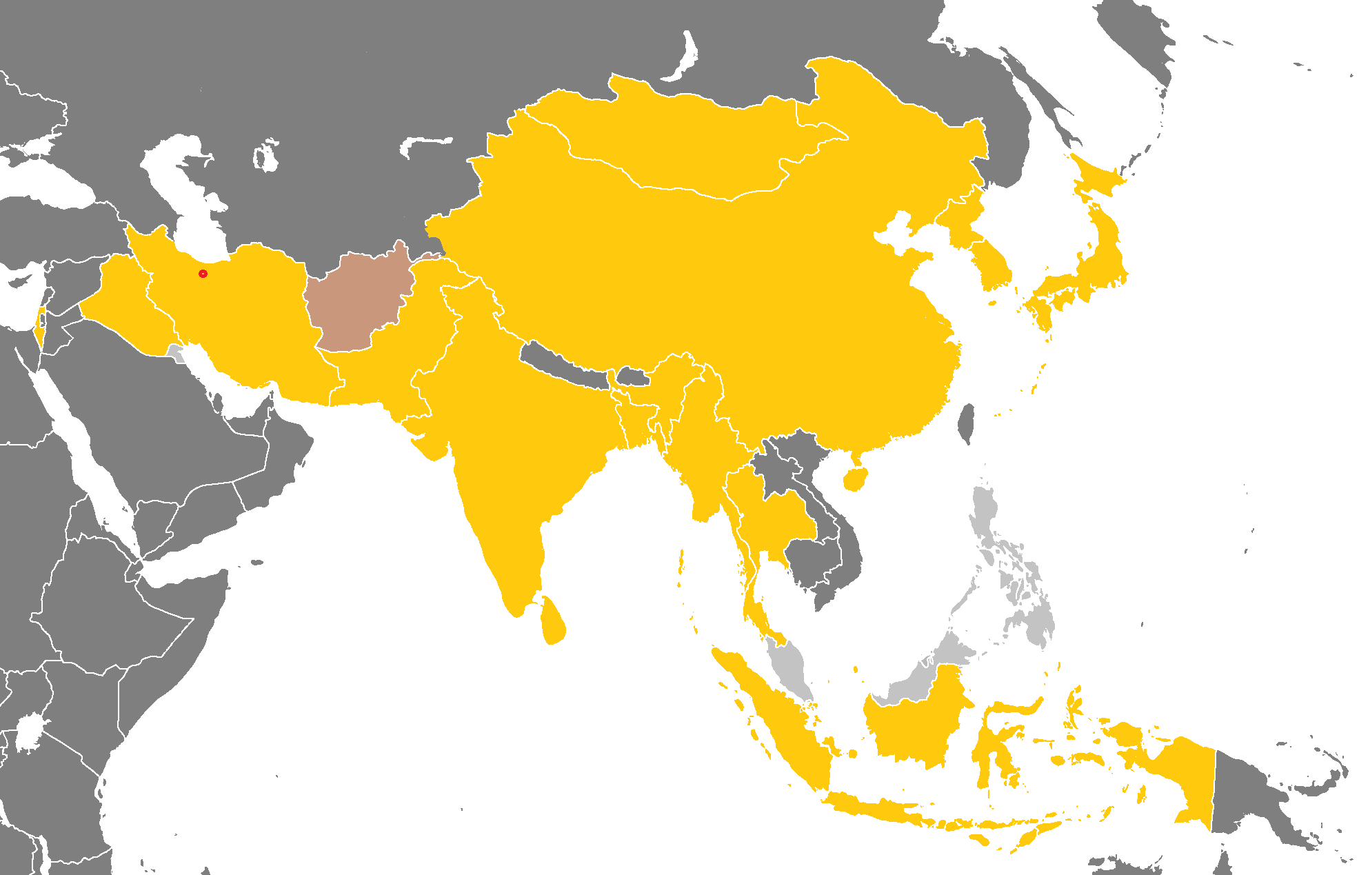 Gold for countries achieving at least one gold medal.Silver for countries achieving at least one silver medal.Bronze for countries achieving at least one bronze medal.Gray for countries that are/were not part of the Olympic Council of Asia or didn't participated.A Red circle displays the host city (Tehran).